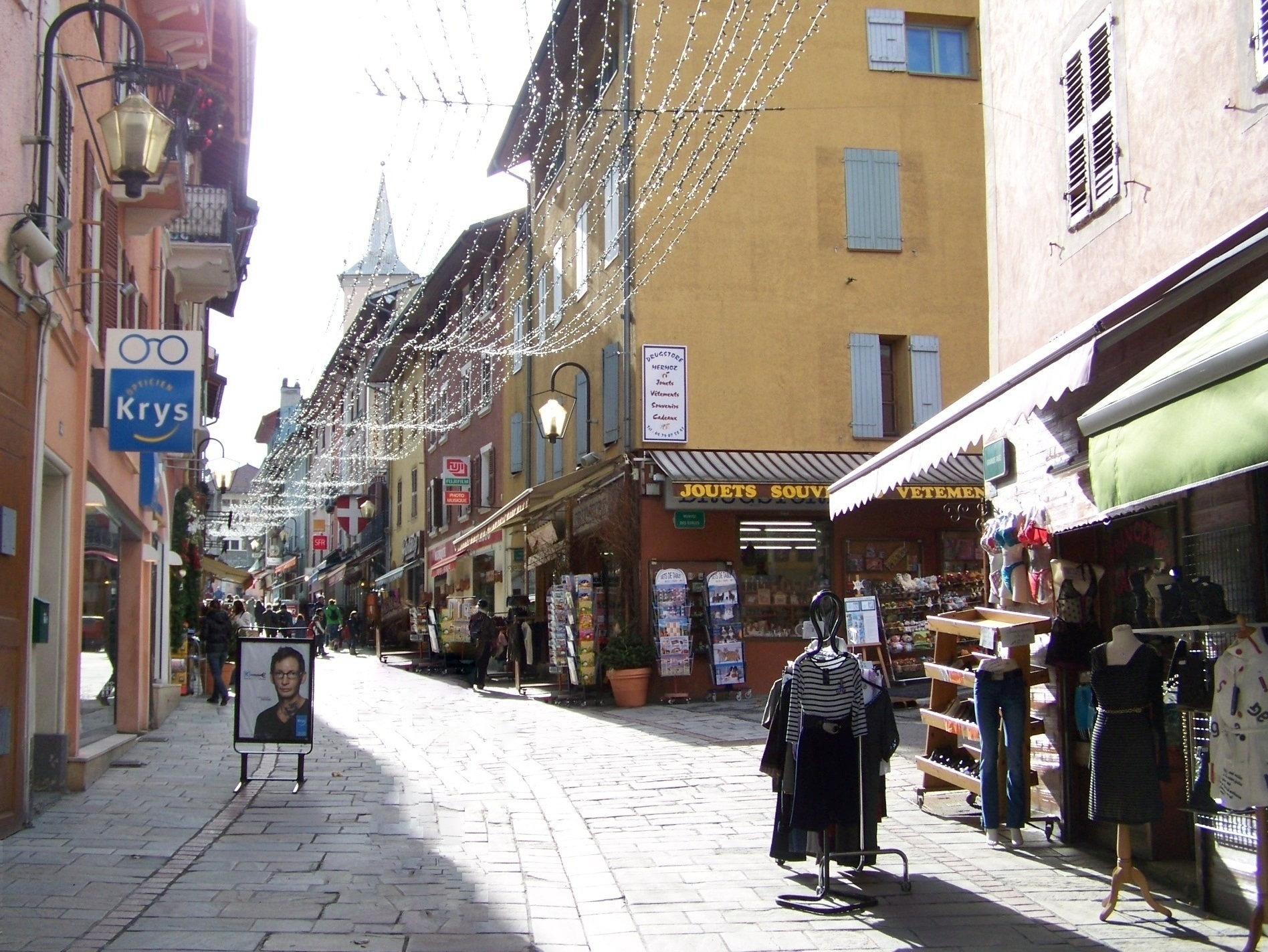 Shopping street in Bourg-Saint-Maurice in Savoie, France, in winter.